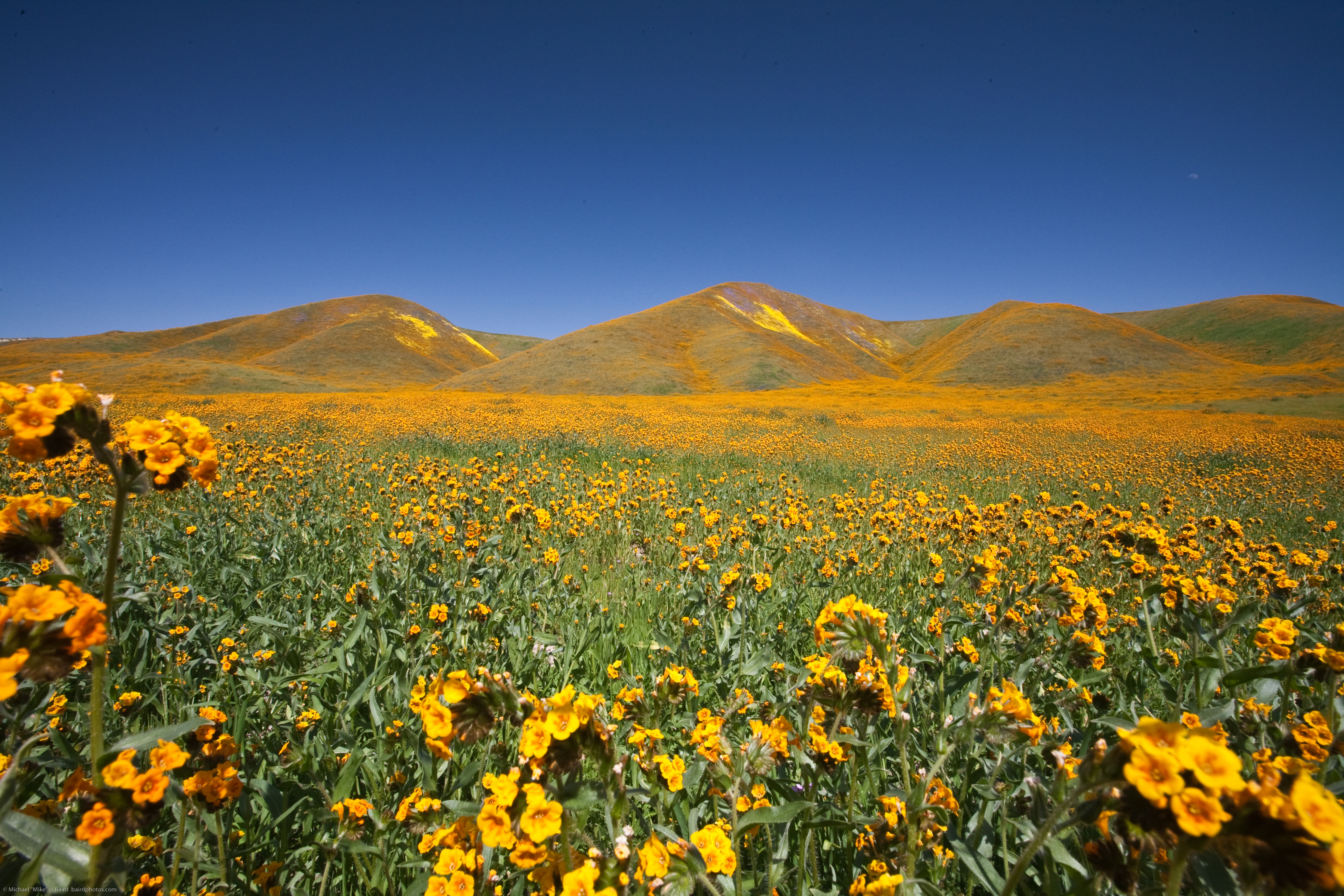 California Wildflowers at Shell Creek and Bitterwater Road off California State Route 58 (Carrizo Highway) in the California Valley, SLO County, near Carrizo Plain, 23 March 2010. Photo by Michael "Mike" L. Baird, mike [at} mikebaird d o t com, ; Shooting a Canon 5D, Canon EF 16-35mm f/2.8L II USM Ultra Wide Angle Zoom Lens w/ circular polarizer (which made a minor difference), handheld and a Nikon P6000 w/ built-in GPS (see EXIF data). ref. To use this photo, which has the most liberal Creative Commons Attribution license possible attached, please see the access, attribution, and commenting guidelines at